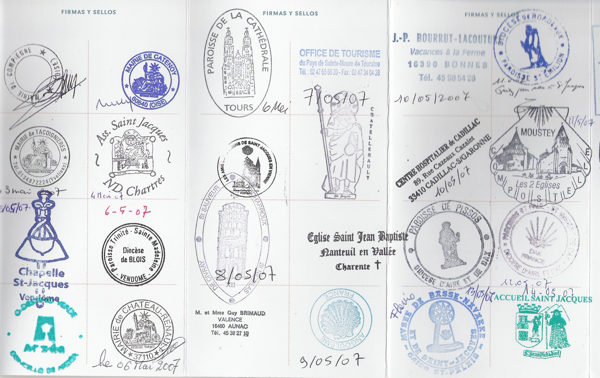 Picture of St. James stamps in France (southwards from Compiègne towards St. Jean Pied de Port), stamped in "Way of St. James" pilgrim passport from May 2007 bicycle trip (the passport was obtained beforehand in Utrecht at the Dutch Confraternity office there). The route taken was determined by the St. James waybook guide called "St. Jacobs Fietsroute 2" by Clemens Sweerman. Scan date: June 2007